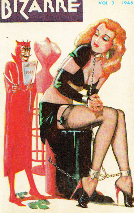 Cover of Bizarre volume 3 from 1946, depicting a chained woman, and a devil with tailoring tools promising torments due to the wasp-waisted "Fashions of 1946".